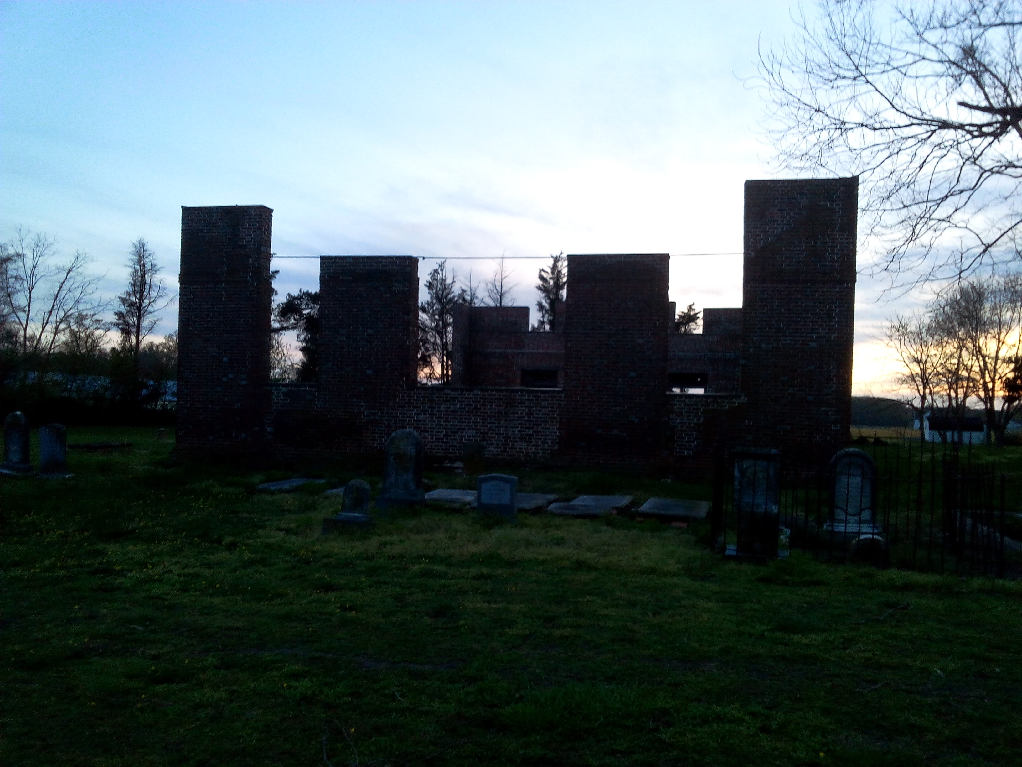 across rural road from Rehoboth Presbyterian Church